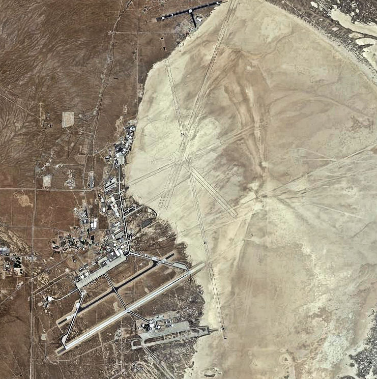 Runways on and near Rogers Dry Lake, at Edwards Air Force Base. Located in the Mojave Desert, California.